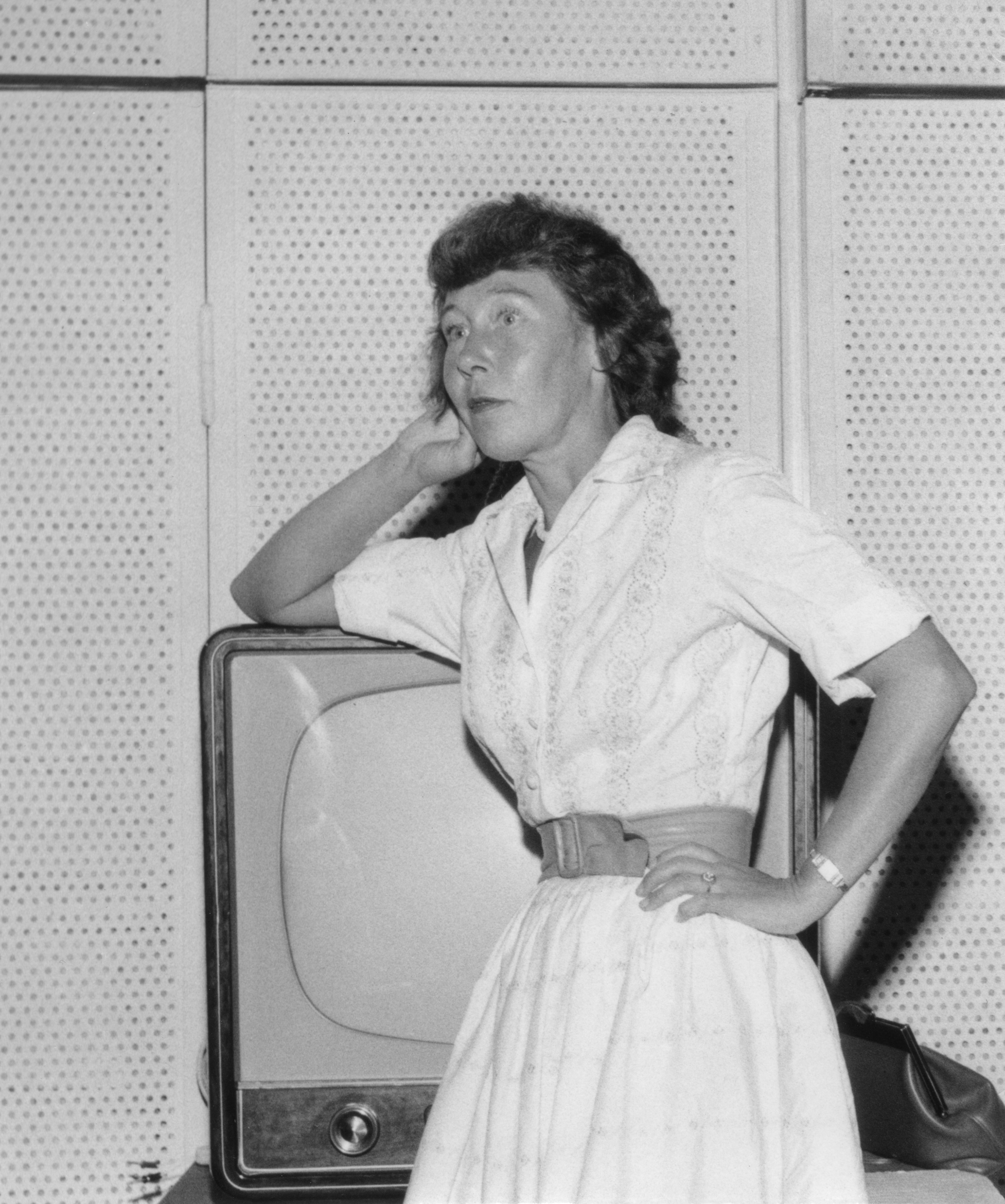 Finnish director, dramaturge and writer Marja Rankkala (1918-2002). Picture taken in the sixties by Yle phtographer